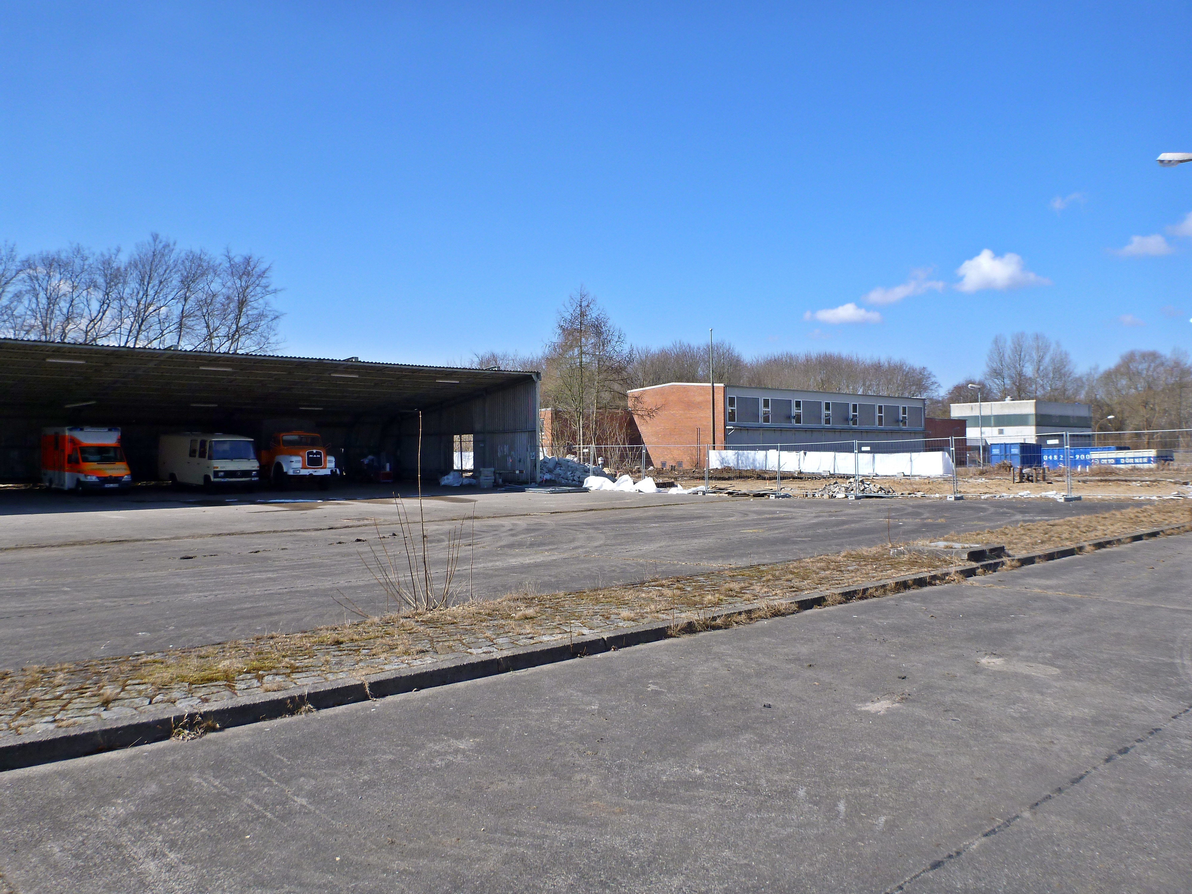 Civil protection centrum in the former military base Hindenburgkaserne in Neumünster